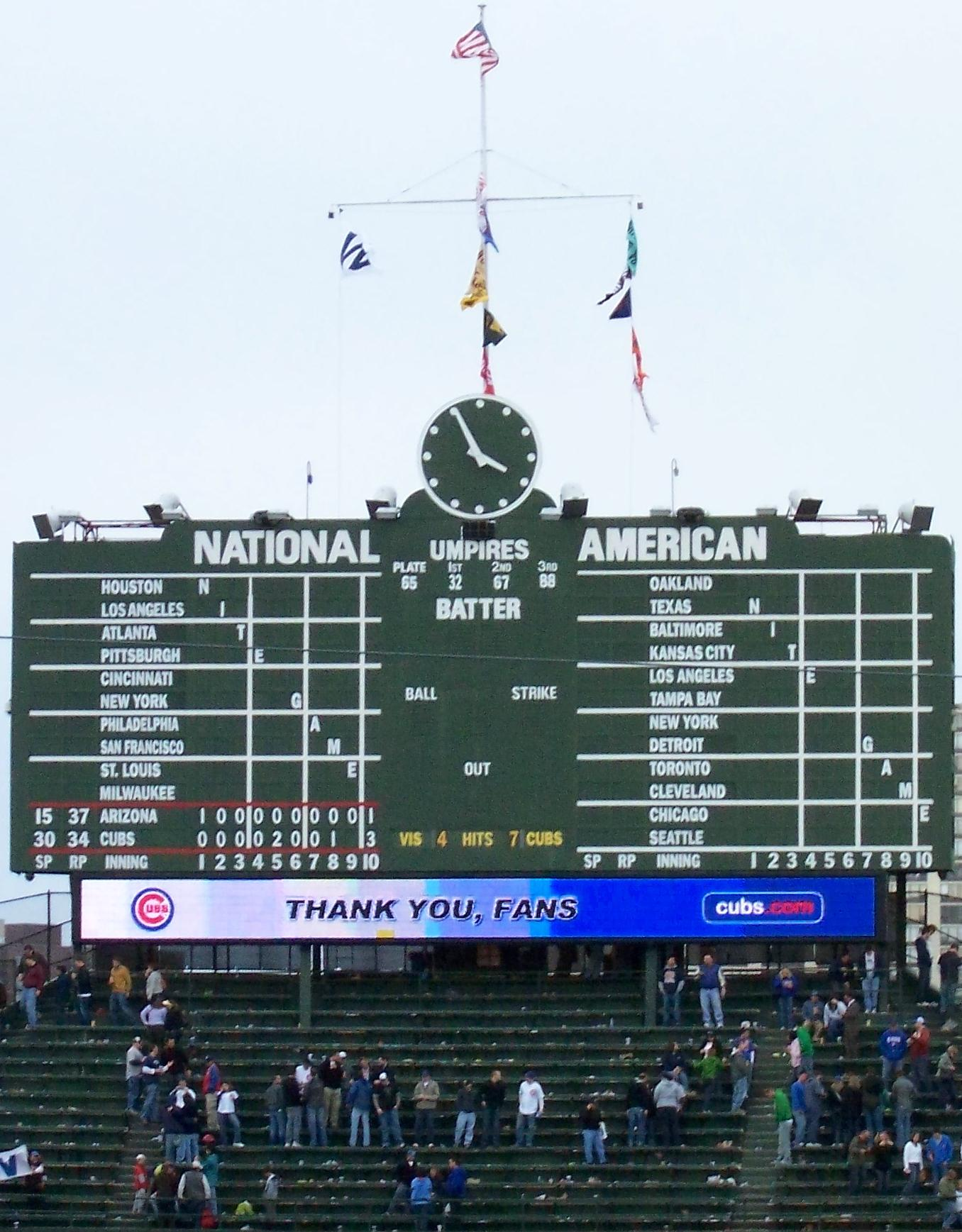 Cubs Win Flag is raised before other flags are lowered